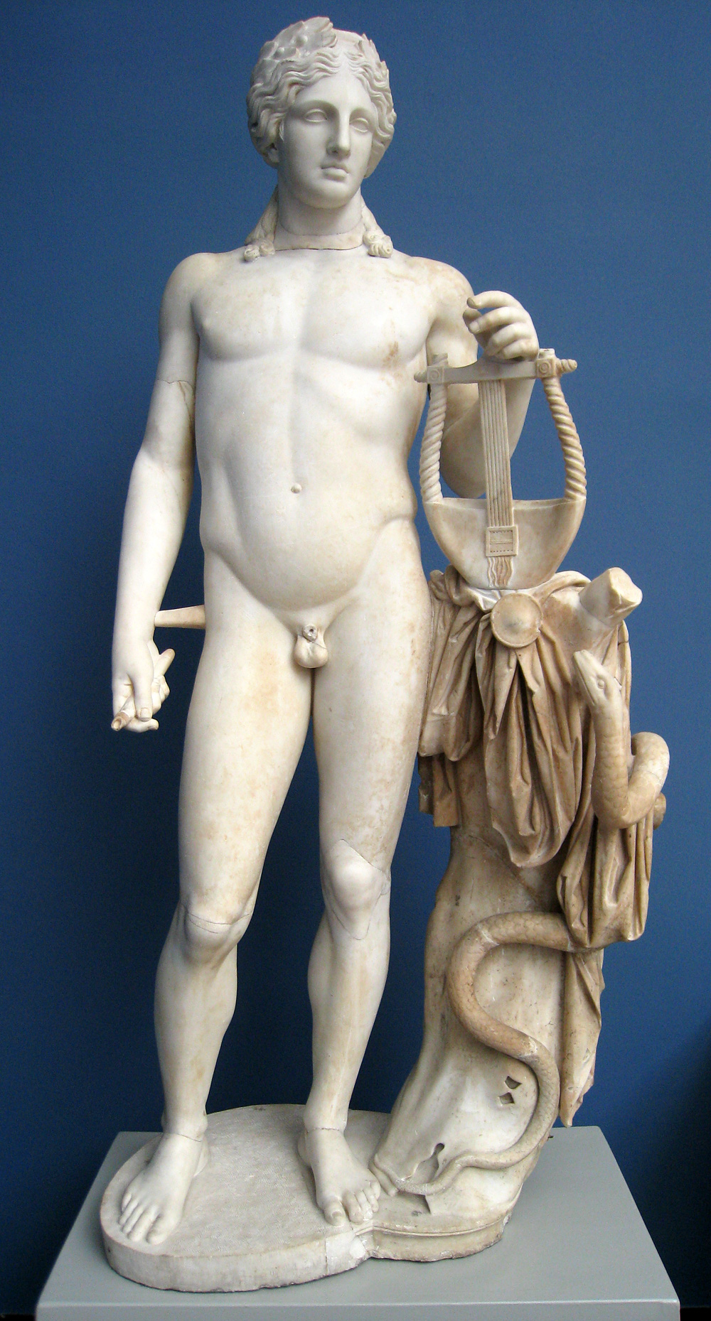 Roman marble statue of Apollo from the Ny Carlsberg Glyptotek. The god is depicted with his attributes, the lyre and the sacred snake Python. The tree trunk around which the snake is wrapped is inscribed with the words "Apollonios made it". Circa 150 AD, restored c. 1790. Item number IN 1632.